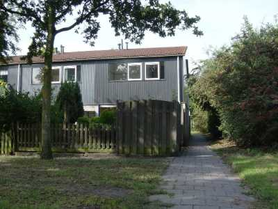 hoekwoning Tanthof, Delft, foto 2003